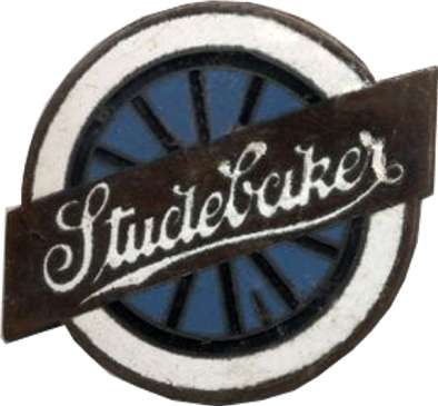 Studebaker Motors Logo used from 1912 until the early 1930s.